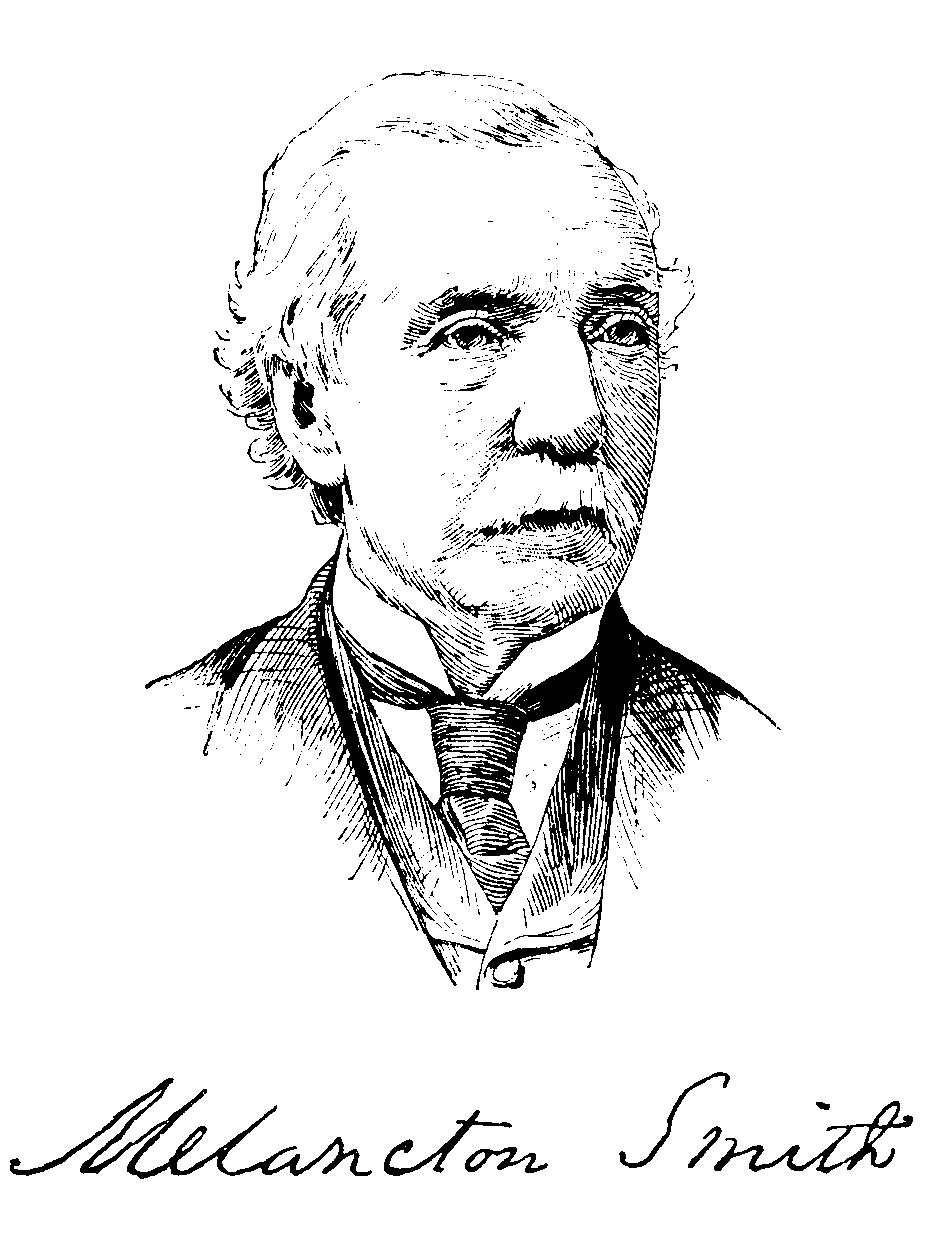 Melancton Smith